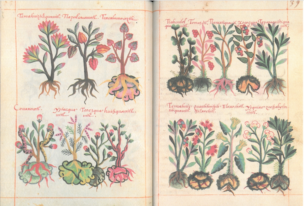 Libellus de medicinalibus Indorum herbis ff. 38v-39r